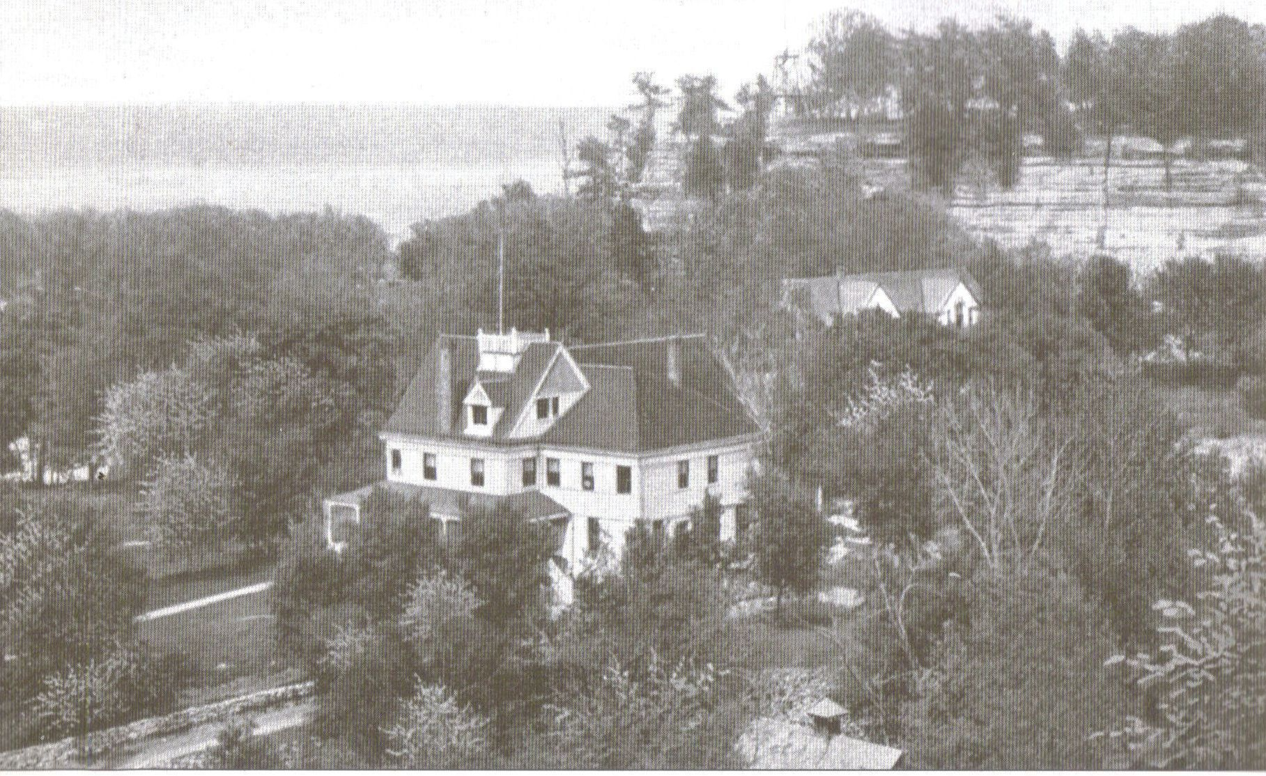 Starved Rock Hotel, constructed by Ferdinand Walther in 1891 just southwest of Starved Rock (shown at right)